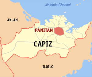 Map of Capiz showing the location of Panitan